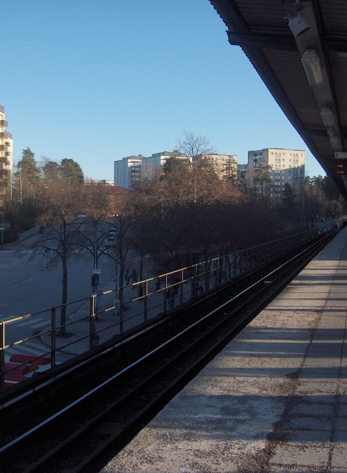 The Stockholm Metro station in Farsta Strand, photographed and edited in PhotoFiltre by me.